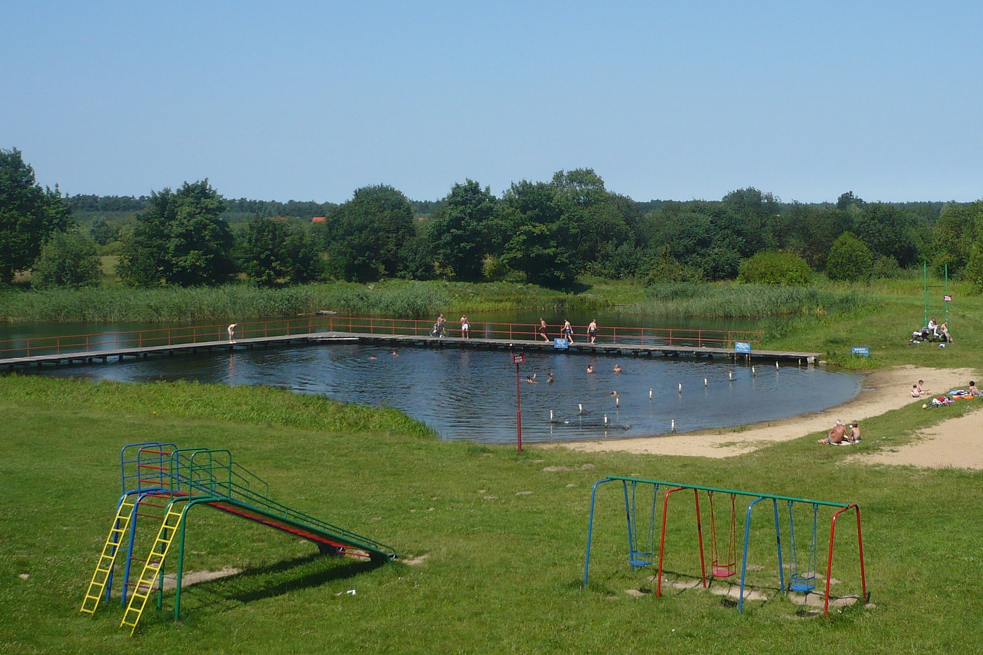 Lido in Gryfice, Poland